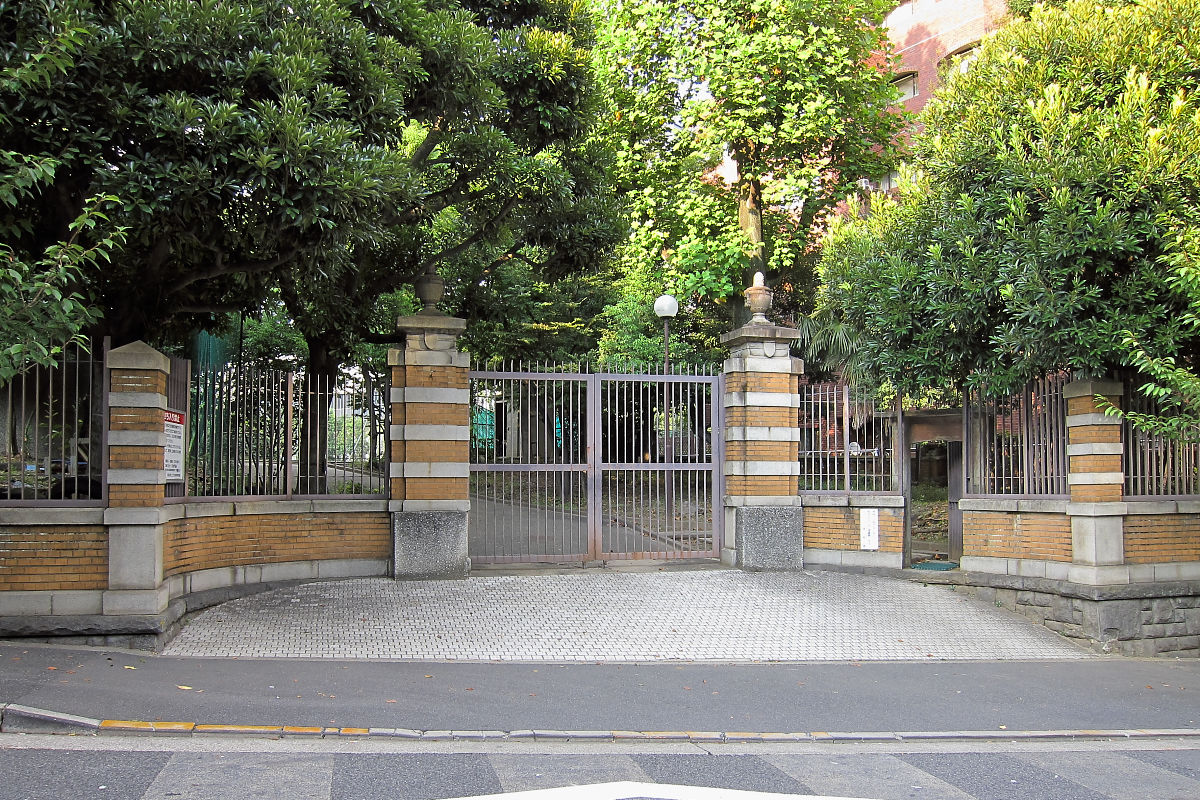 Hibiya highschool main gate in Nagata-cho Chiyoda-ku, Tokyo